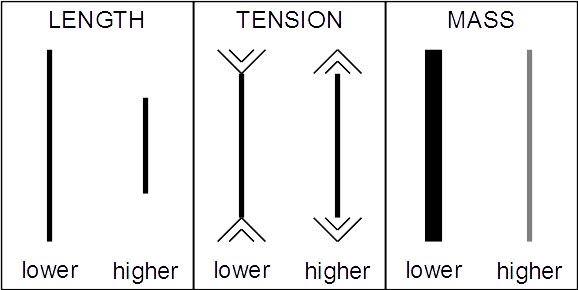 Illustration of Mersenne's laws, the frequency of a string is determined by three factors: length, tension, and mass/thickness.